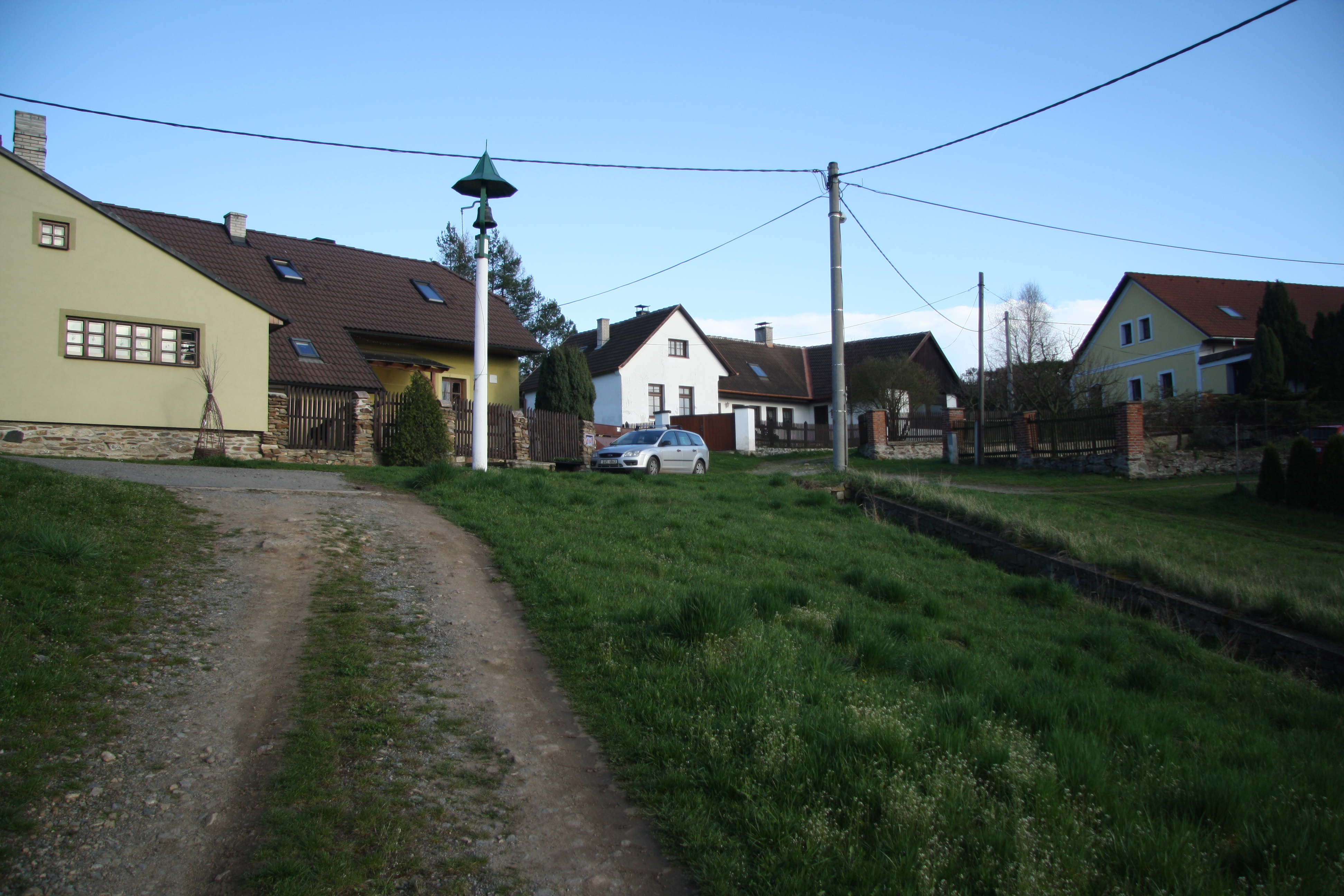 Center of Rychlov, Kněžice, Jihlava District.